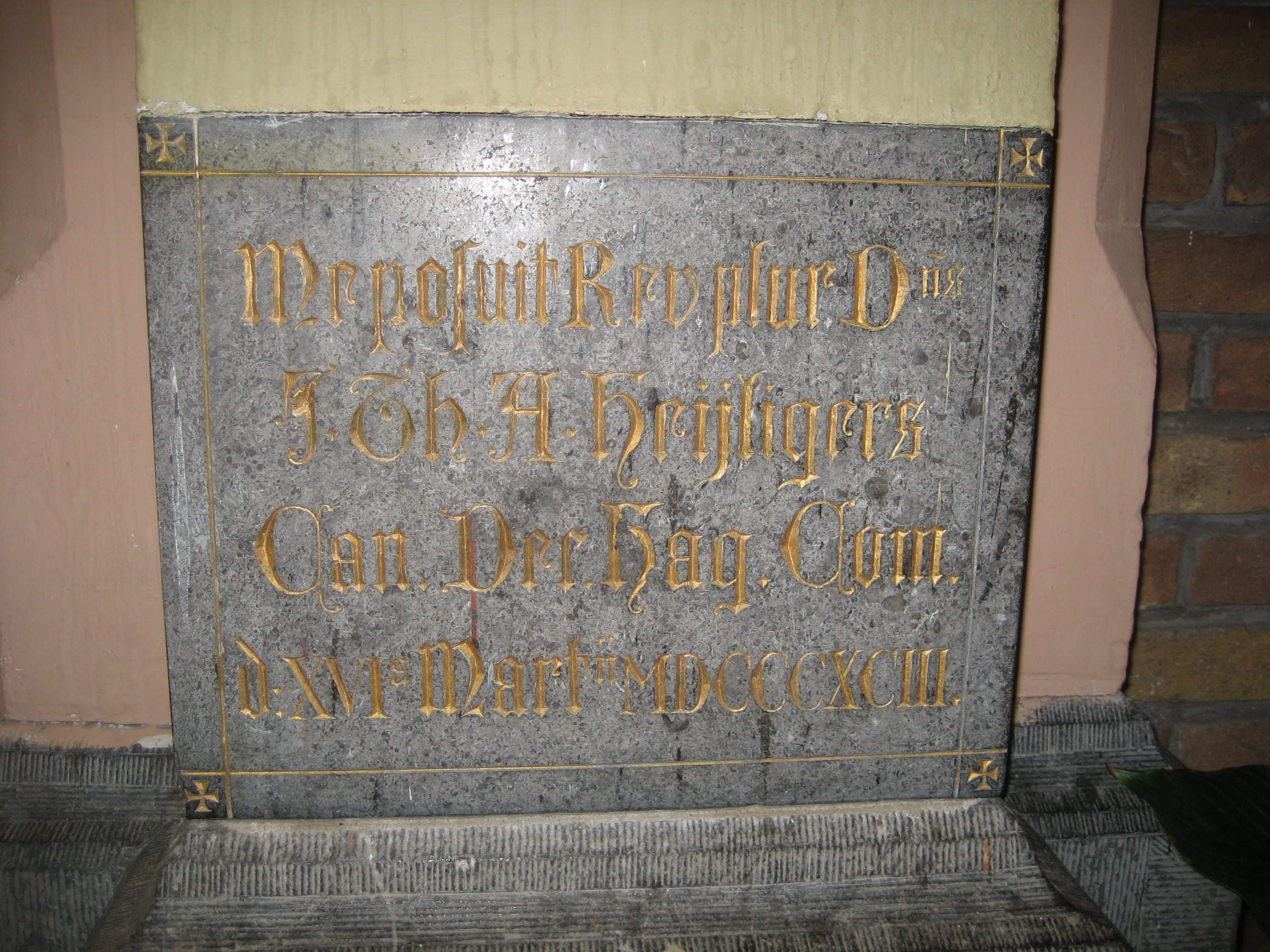 Date stone in St. Andrew Church in Kwintsheul (The Netherlands)